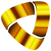 severstal logo